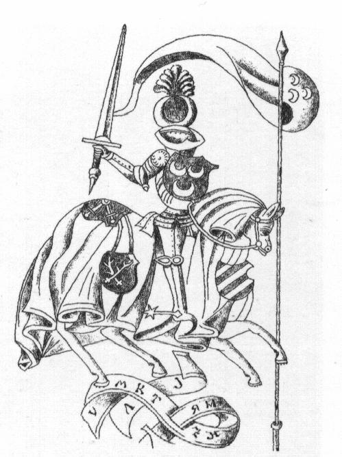 Ex libris of Hynčík Bírka z Násile from 1483 inside book Nový zákon a Kniha proroků (1418-1439).